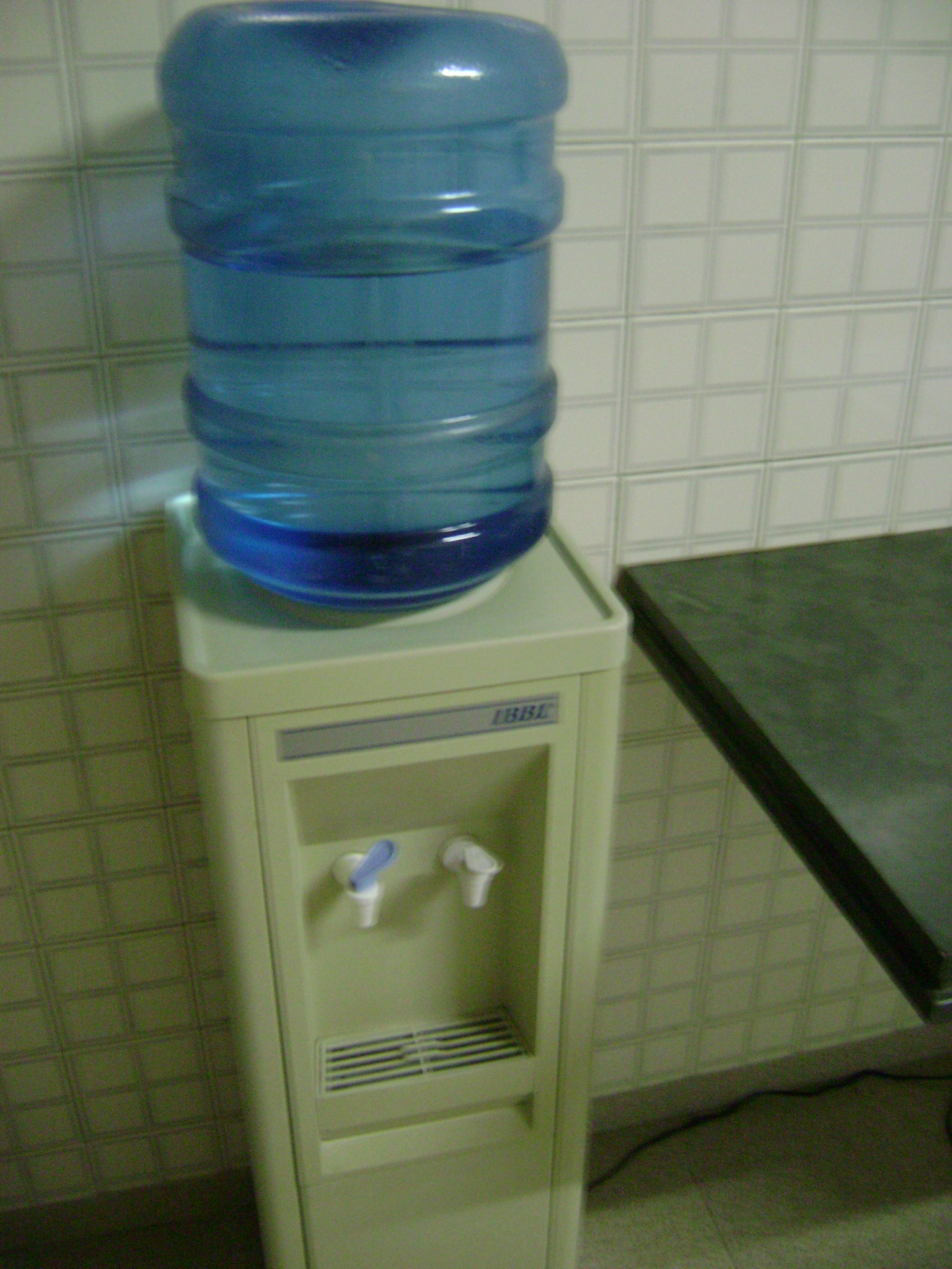 Bebedouro de água em um retiro, em Minas Gerais, Brasil.